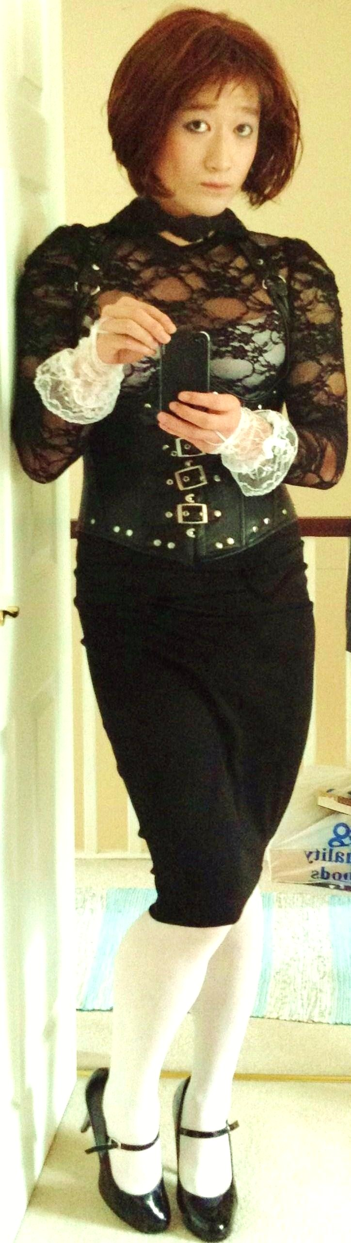 A male cross dresser in feminine office wear.